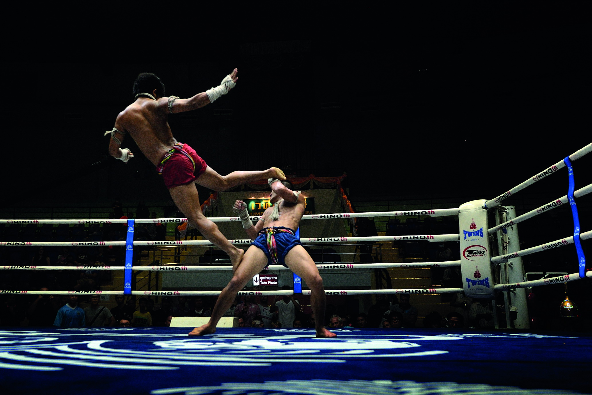 Lumpinee Boxing Stadium was originally located on Rama IV road, Pathumwan district, adjacent to the former Armed Forces Academies Preparatory School. The stadium was as high standard boxing arena as Rajadamnern Stadium. It was founded by then Maj.Gen.Praphas Charusathien, the commander of The 1st Division, The King's Guard, and named “Lumpinee” after a nearby landmark ‘Lumpinee Park’. The stadium hosted its first official fight on 15thMarch, 1956, and the grand opening ceremony was held on 8th December of the same year. Many Thai and international boxing matches took place here, one of those was the first world boxing champion of “Pone Kingpetch” vsPascualParez on Saturday evening 16th April, 1960 As the former stadium became too crowded, the new one was constructed in a much larger area within the Royal Thai Army Sports Centre, on Ram Indra road, Bangkaen district. The new stadium holds boxing bouts on Tuesdays and Fridays, from 18:00 to 22:00, and on Saturdays from 17:00 to 00:30, closed on religious days.